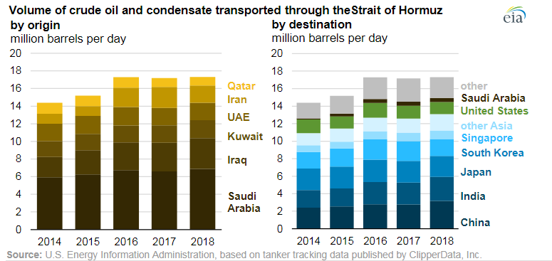 EIA estimates that 76% of the crude oil and condensate that moved through the Strait of Hormuz went to Asian markets in 2018. June 20, 2019